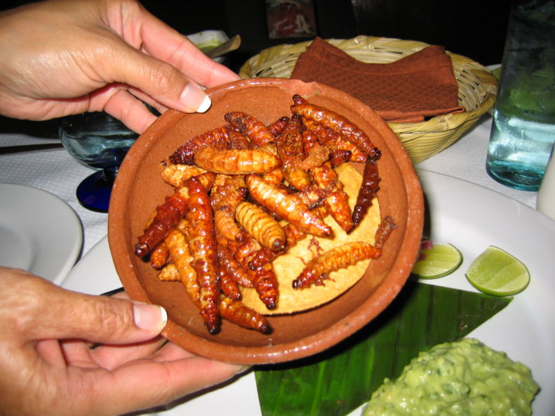 Picture of Gusanos de maguey taken at Restaurante Villa Maria in Polanco, Mexico City.